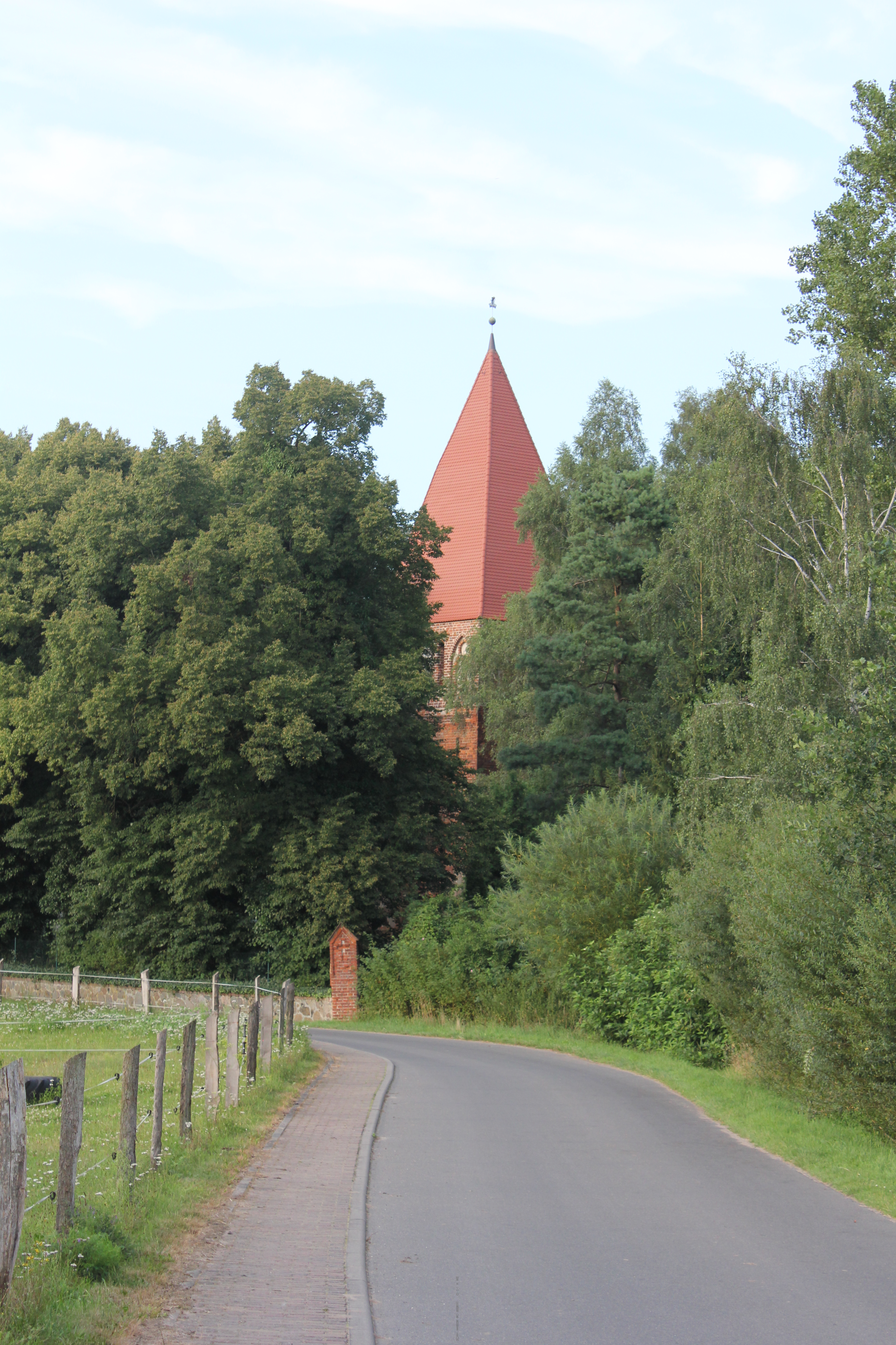 View of the church of Gross Varchow